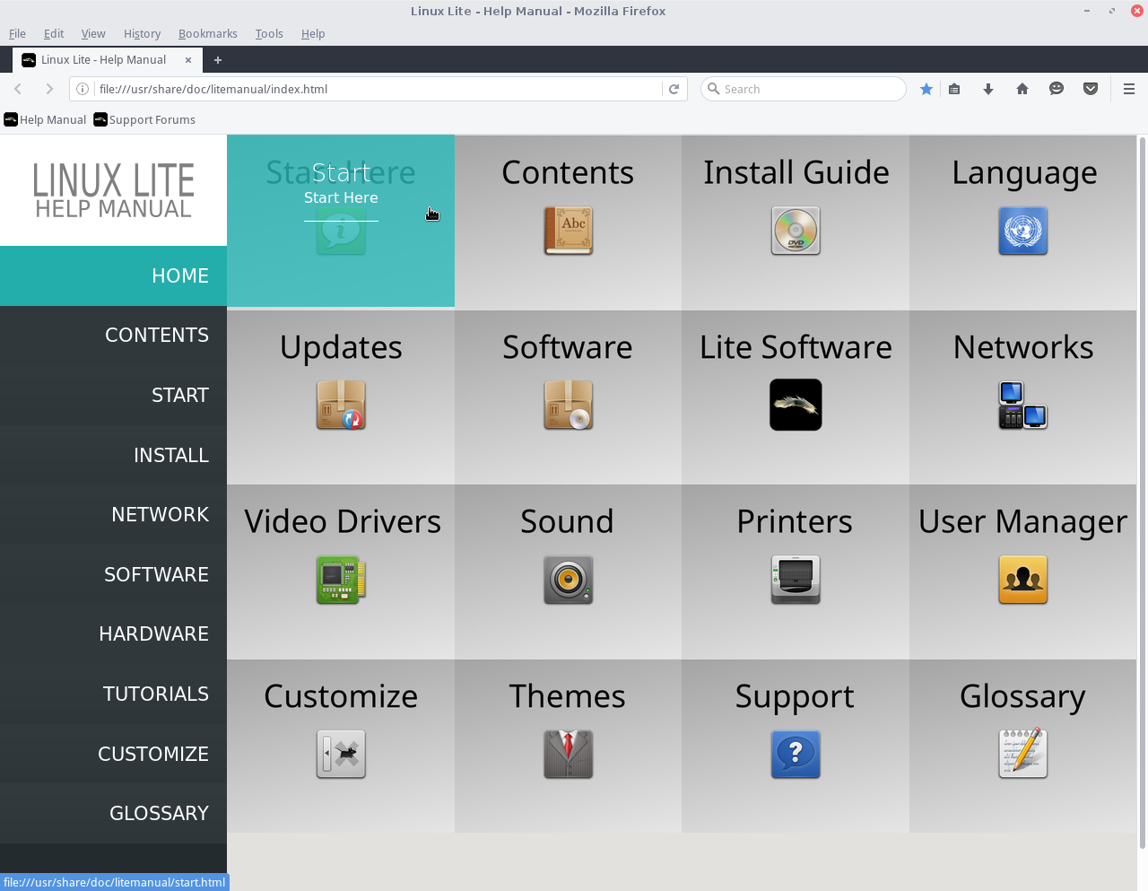 The online help of Linux Lite 3.0.